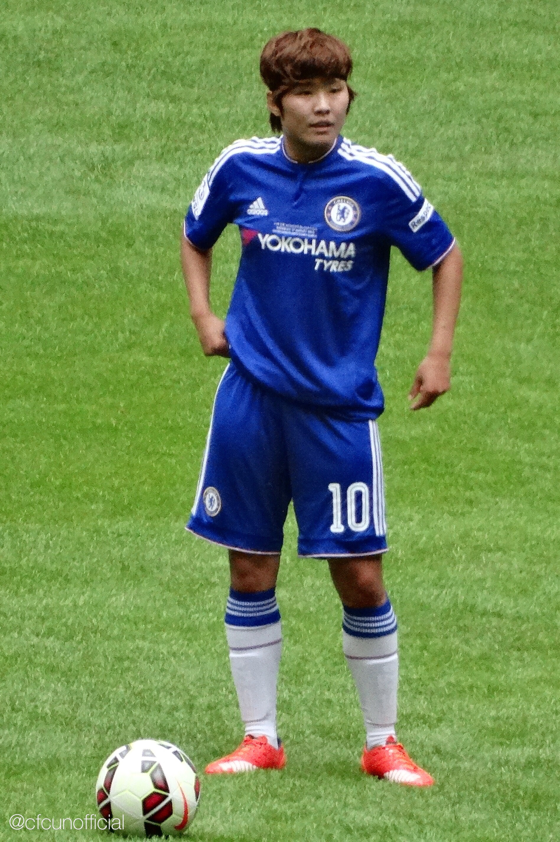 Ji So-yun of Chelsea